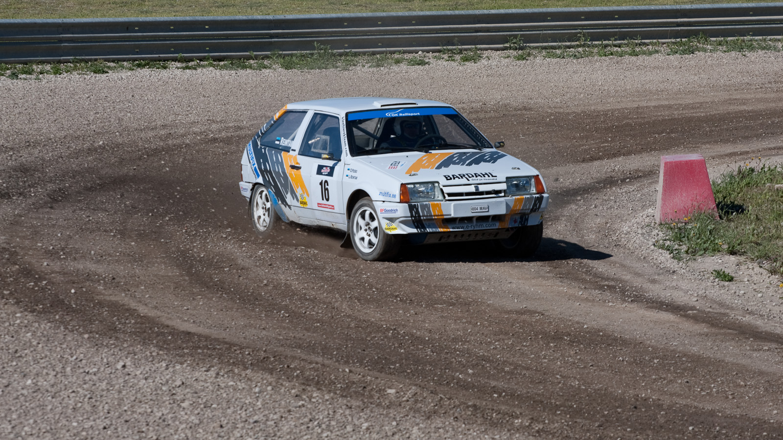 LaitseRallyPark Grand Prix 2010 Rally Legends 05.06.2010